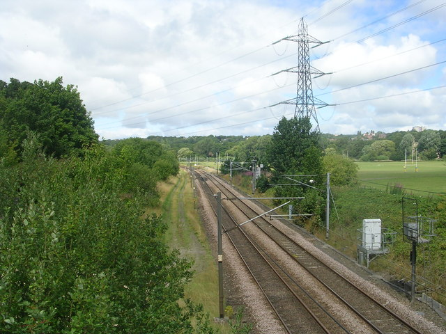 View from Kirkstall Bridge - Bridge Road